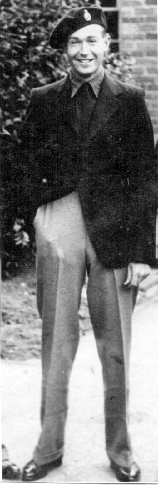 John Lucas Matthews (1918-1992) in Militia Walking Out Uniform 1939